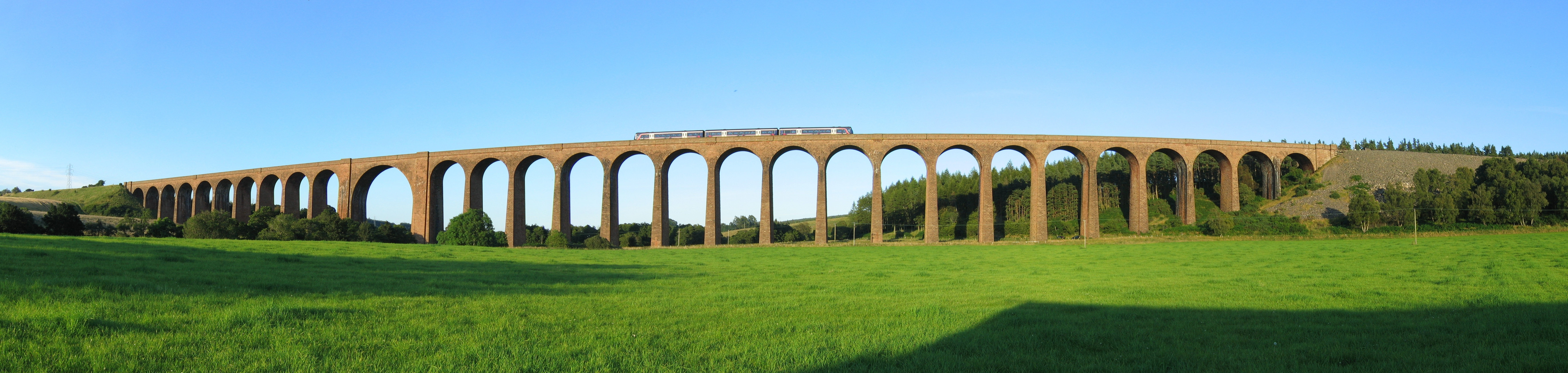 Panoramic view of Culloden Viaduct (also known as Nairn viaduct) with a Scotrail train on the Highland Line on it. This double-track viaduct is the longest (1800ft (549m)) masonry railway viaduct in Scotland. It was opened in 1898. Panoramic image created with programs hugin and enblend.